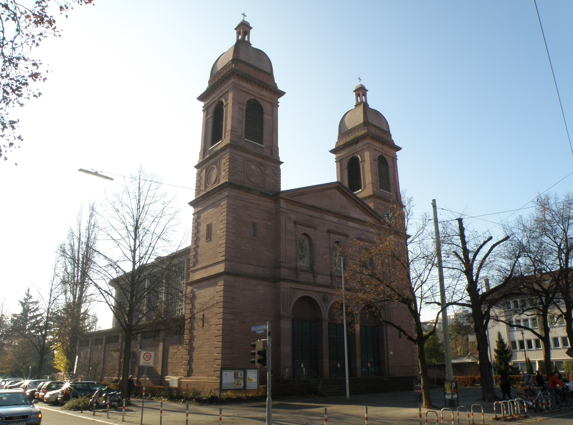 St. Peter und Paul Kirche, Mühlburg, Karlsruhe (2011)